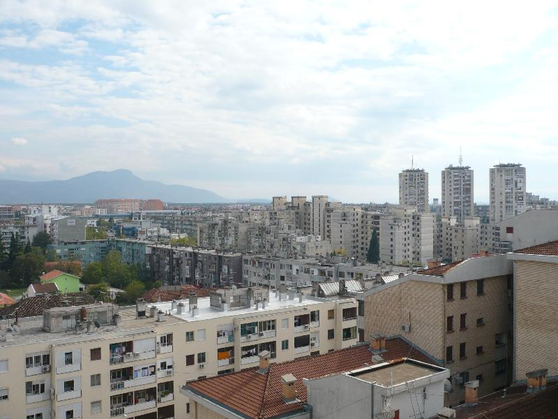 Some socialist housing esteate in Podgorica, Montenegro